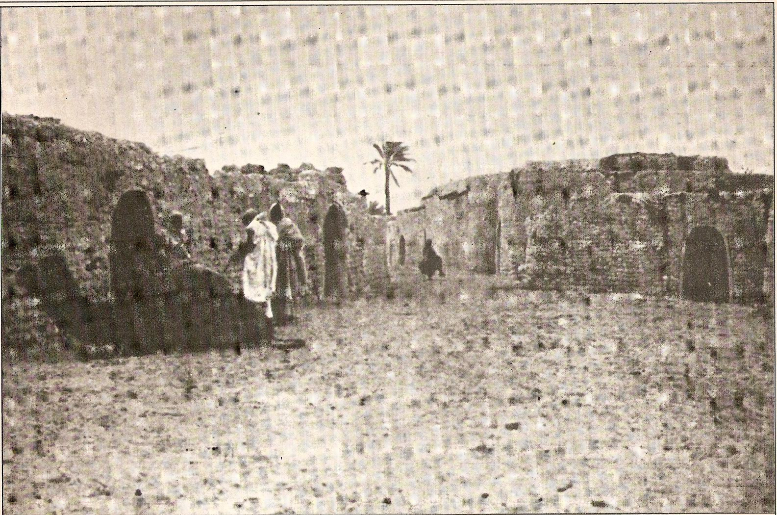 One street of Kufra.